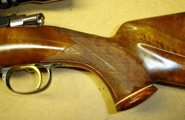 custom high-quality rifle stock grip checkering on a Browning Safari Medallion rifle in .270 Winchester